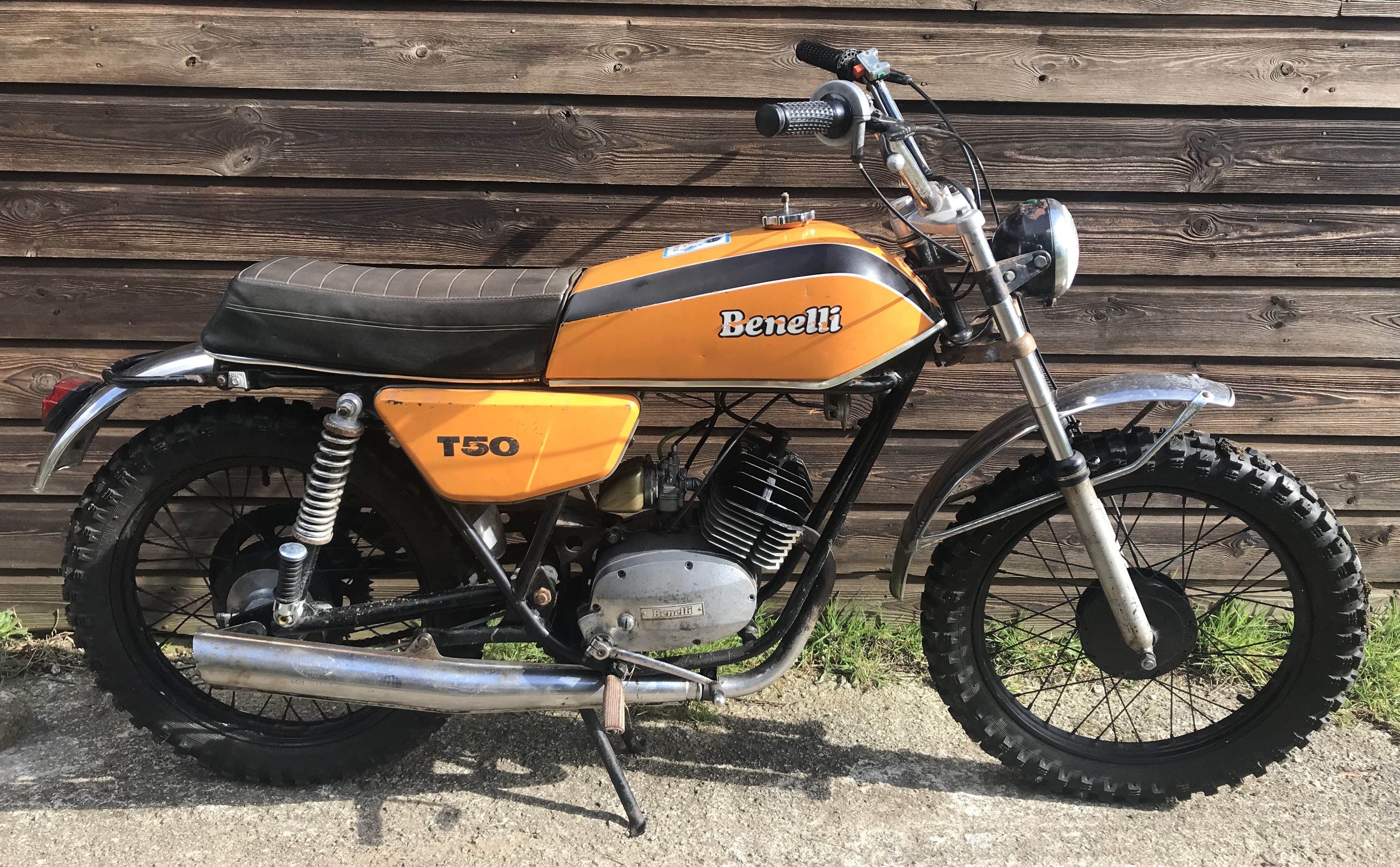 1977 Benelli 50 Tourismo (T50) Moped